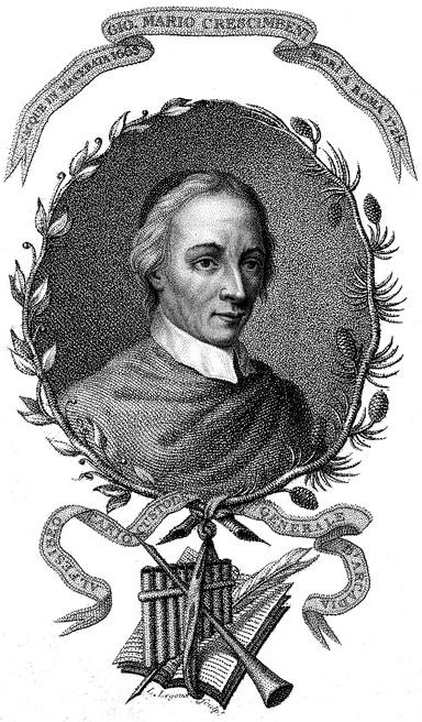 Italian poet and literary critic Giovanni Mario Crescimbeni (1663-1728). Stipple engraving by Louis Legoux (17..-18..).